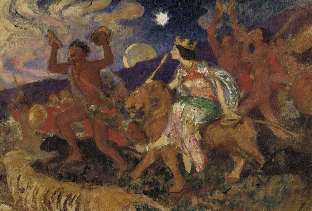 Composition for Rhea, c1920-25 Oil on canvas, signed and inscribed on stretcher verso, Sketch for Rhea/ R C W Bunny, 52 x 75 cm